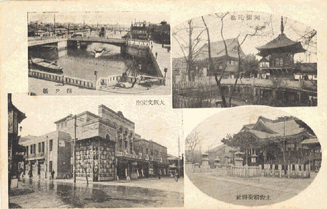 Japanese postcard view of Wakoji (a temple); Yotsubashi (a bridge and the surrounding area); Tosa Inari Shrine; and Bunrakuza (the puppet theater) in Osaka